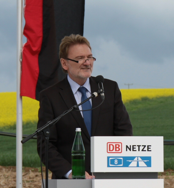 Volker Kefer, member of the executive board of Deutschen Bahn AG, speaking at the groundbreaking ceremony for the railway track Wendlingen-Ulm